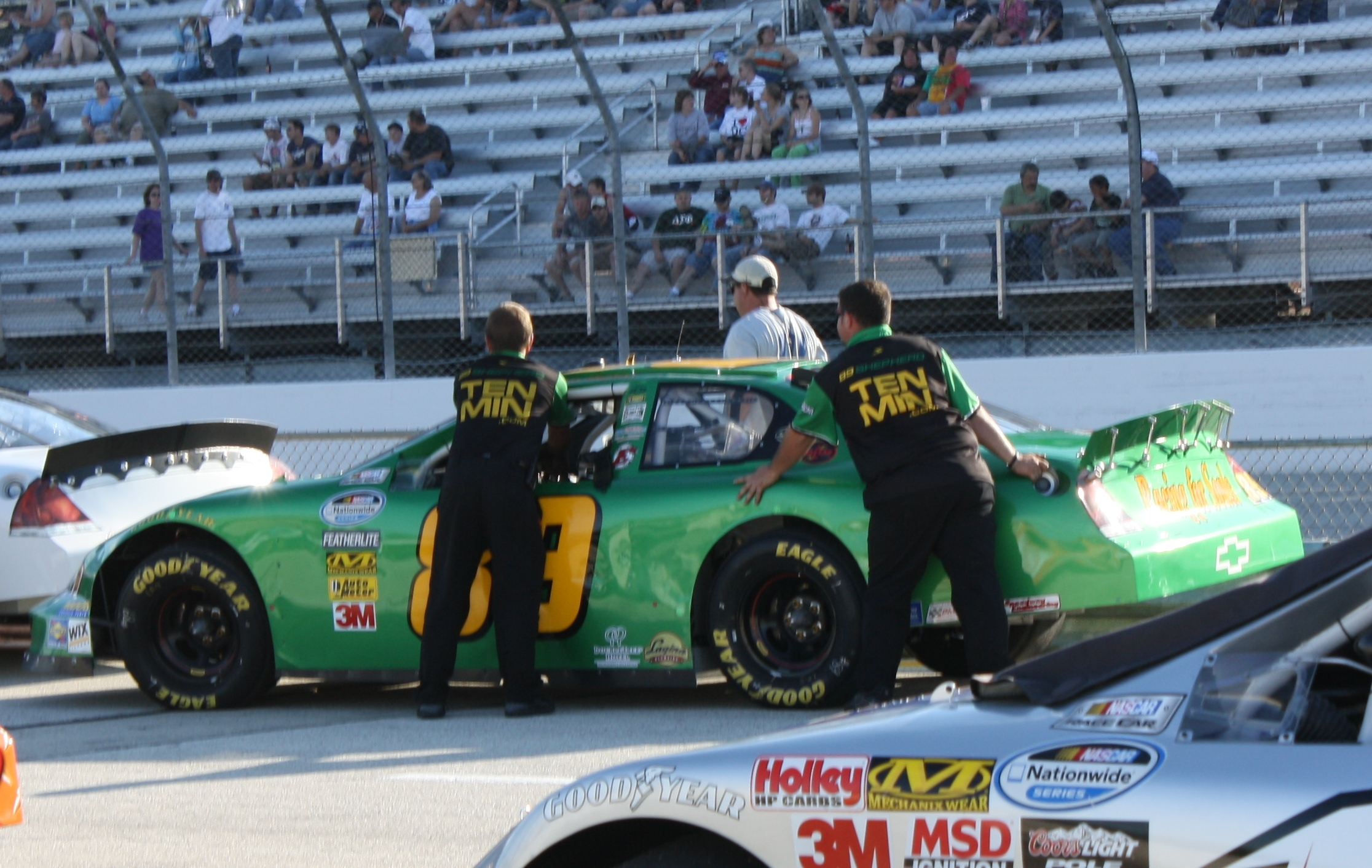 NASCAR driver Morgan Shepherds Chevrolet being pushed off after failing to qualify for the 2009 Northern 250 Nationwide Series race at the Milwaukee Mile.